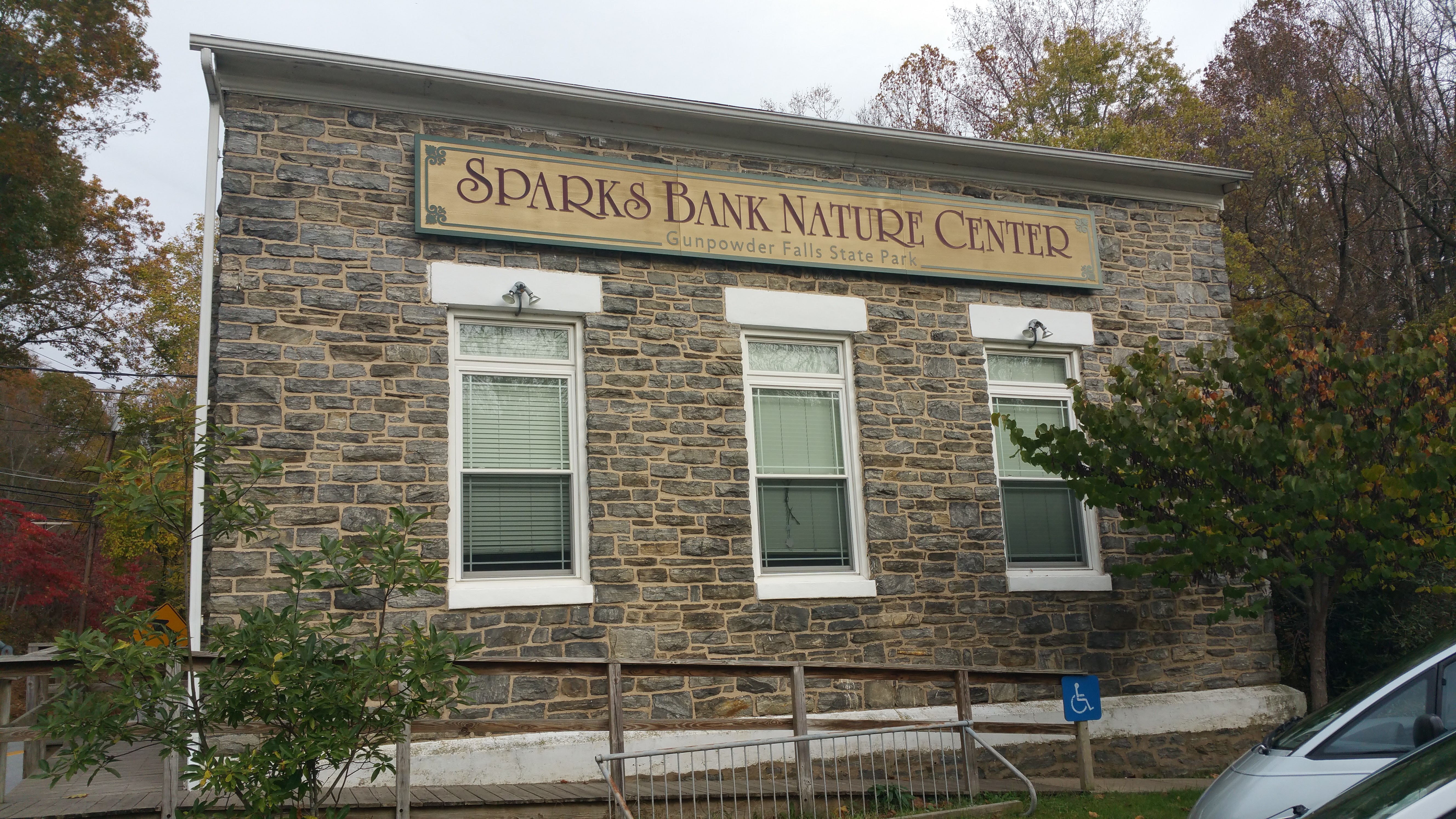 Historic Sparks Bank building in Sparks, Maryland. The building is now a nature center